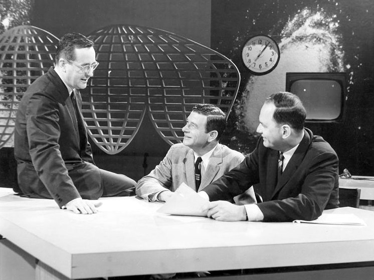 Publicity photo of John Chancellor, Frank Blair and Edwin Newman from the television program Today (The Today Show). The show was preparing to celebrate its 10th anniversary on the air at the time the photo was taken.